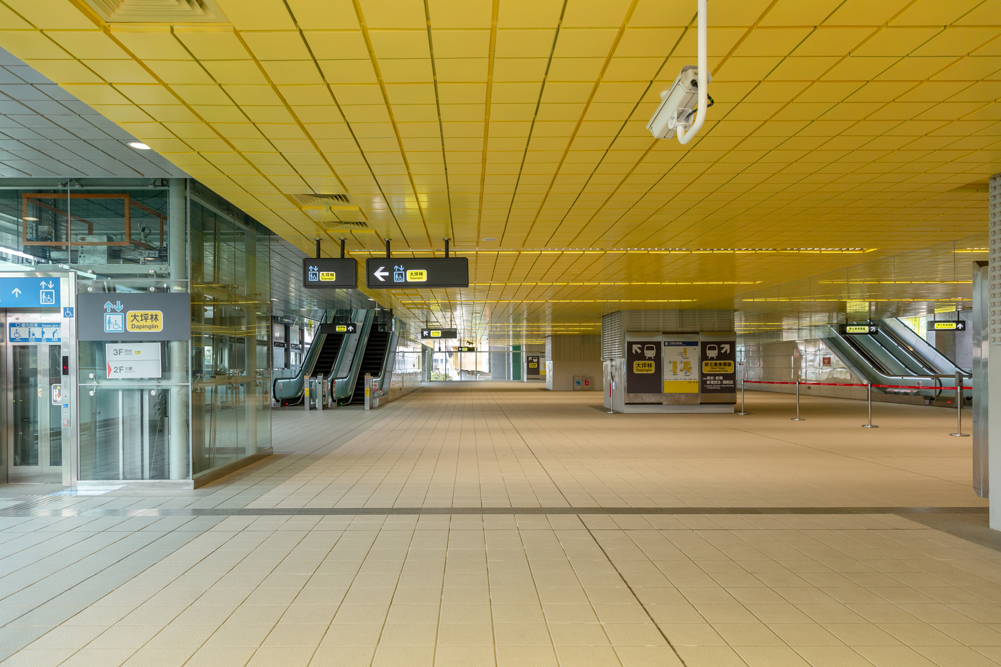 Official Photo by Wang Yu Ching / Office of the President